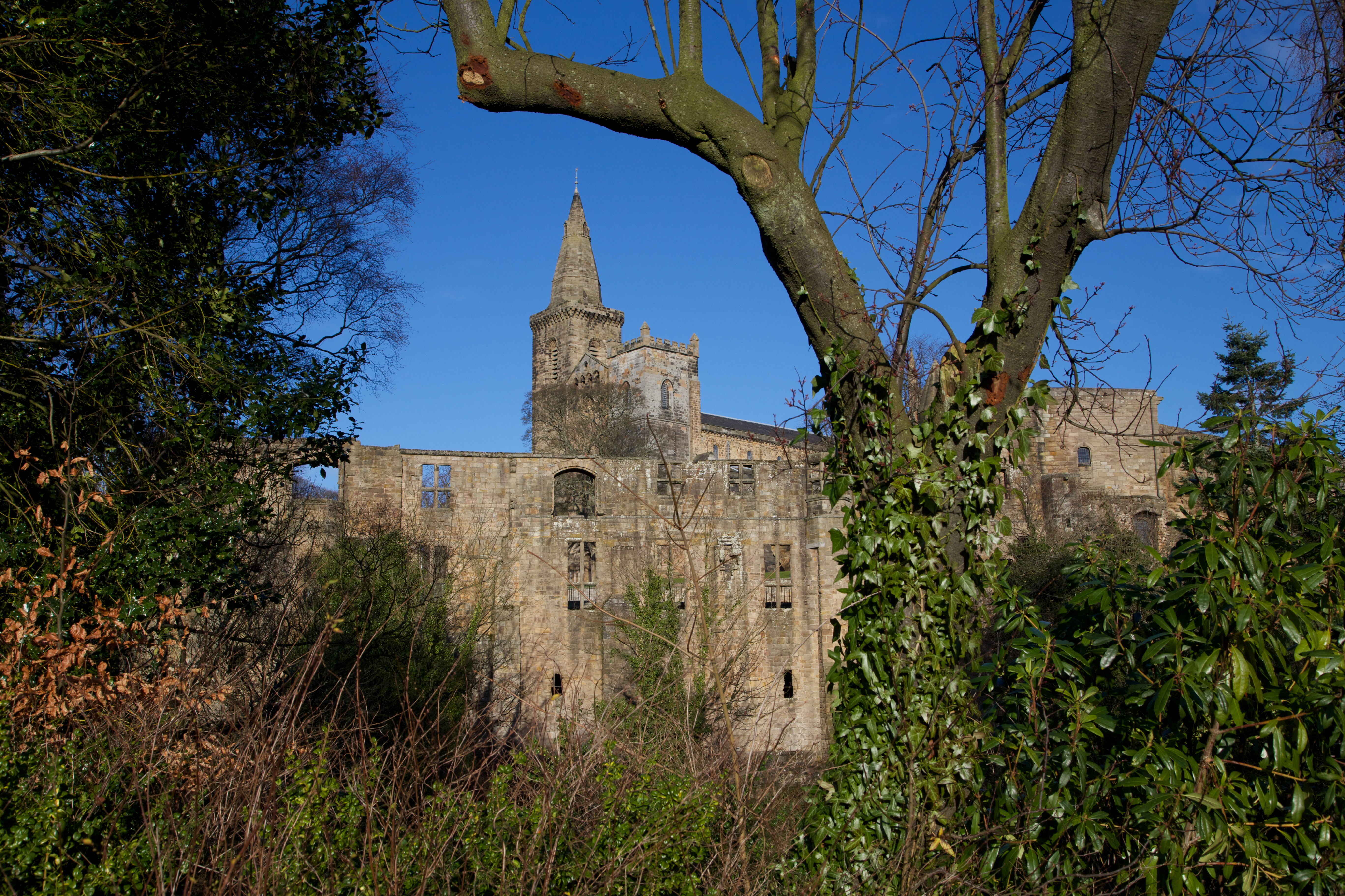 View of the abbey and palace from Pittencrieff Park.